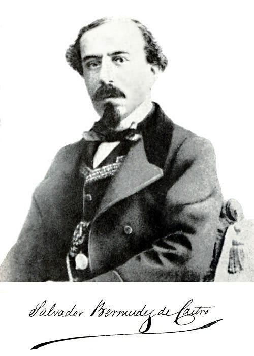 Archivo: José Luis Jiménez